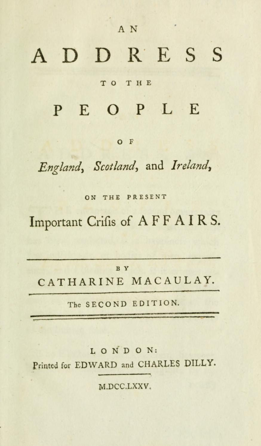 Title page of second edition of Catharine Macaulay's "An address to the people of England, Scotland, and Ireland, on the present important crisis of affairs"